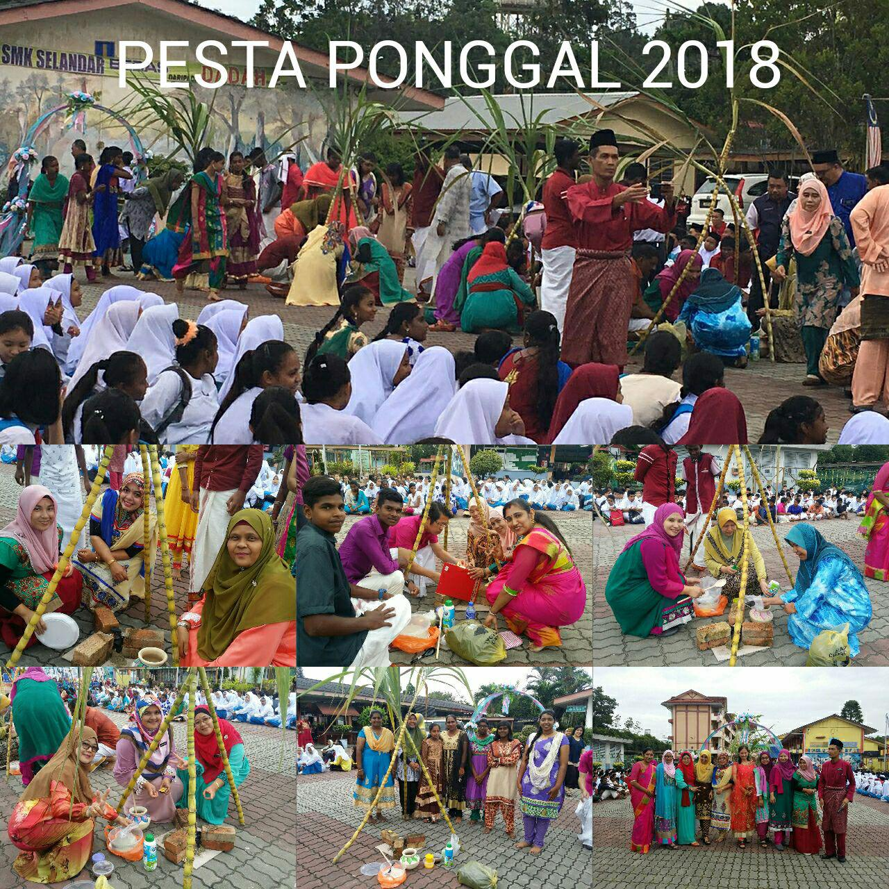 PONGGAL 3